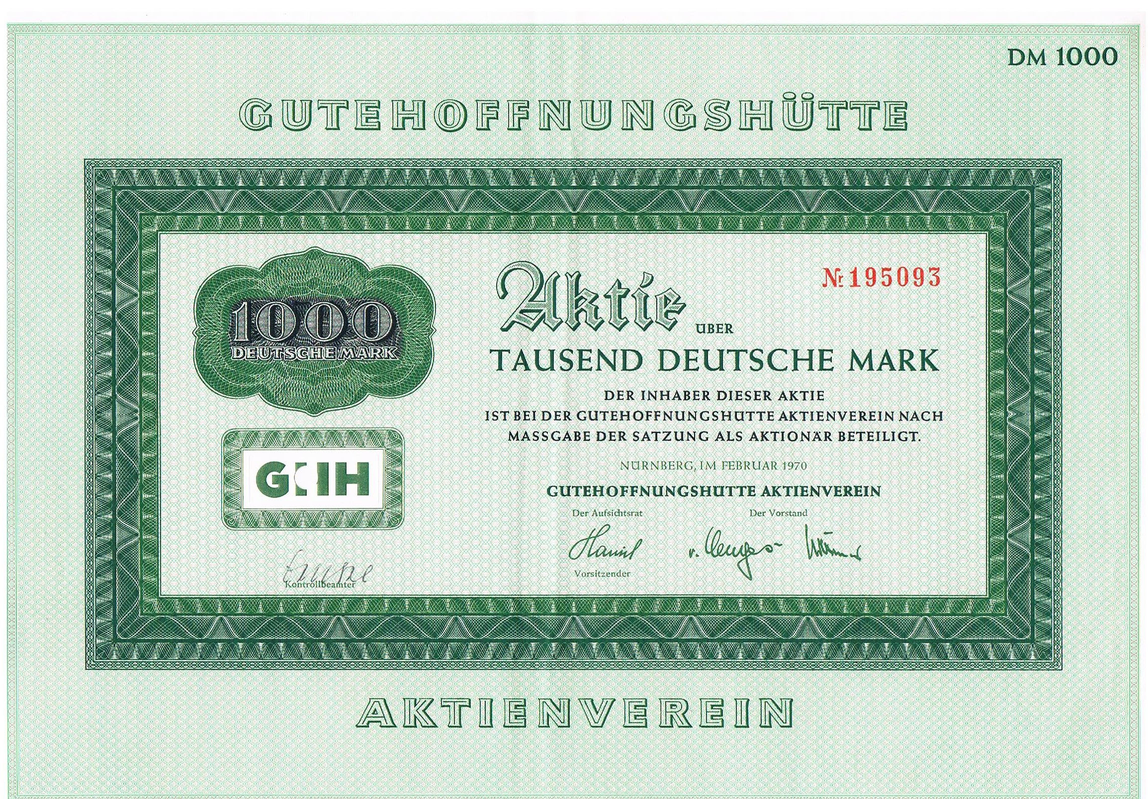 GHH Stammaktie von 1970